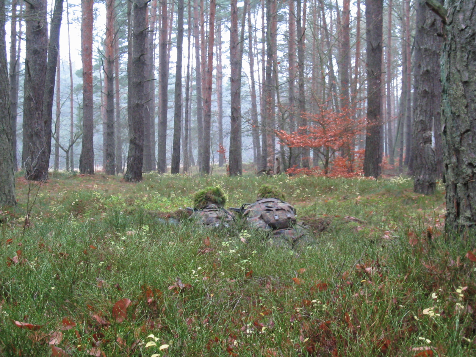 Recruits during basic training in the Bundeswehr, here Armored infantymmen in Stallberg (trainig elemetː on Outpost) in Autumn 2006.